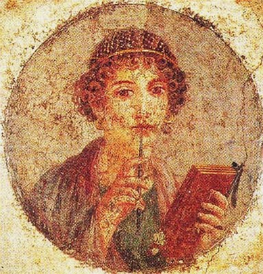 Tondo of Woman with wax tablets and stylus (so-called "Sappho"), National Archaeological Museum of Naples (inventory no. 9084). Roman fresco of about 50, from Pompeii (VI, Insula Occidentalis) - Discovered in 1760, is one of the most famous and beloved paintings, commonly called Sappho. Actually portrays a high-society Pompeian girl, richly dressed with gold-threaded hair and large gold earrings, bringing the stylus to the mouth and holding the wax tablets, notoriously accounting documents which therefore have nothing to do with poetry and even less with the famous Greek writer.